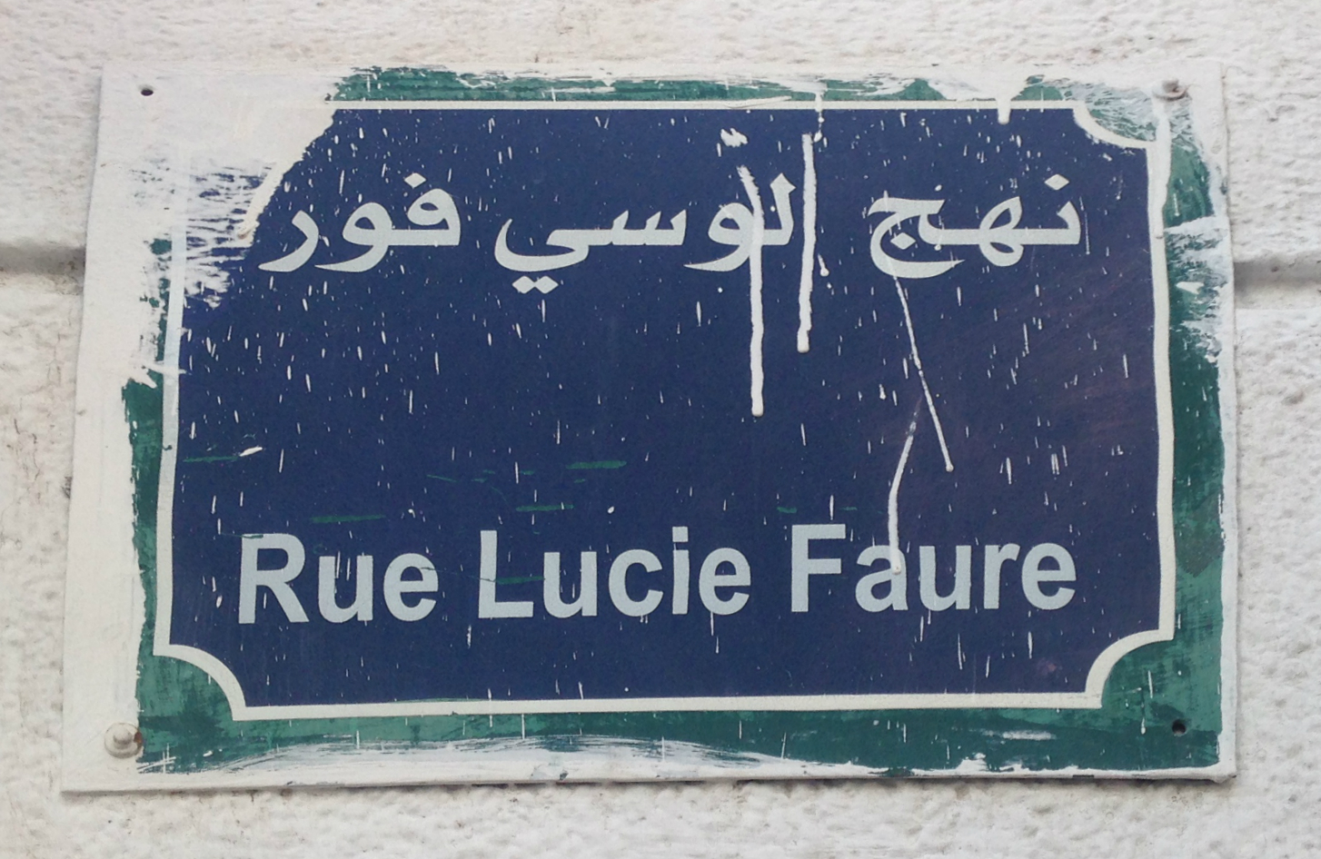 Street Lucie Faure Tunis